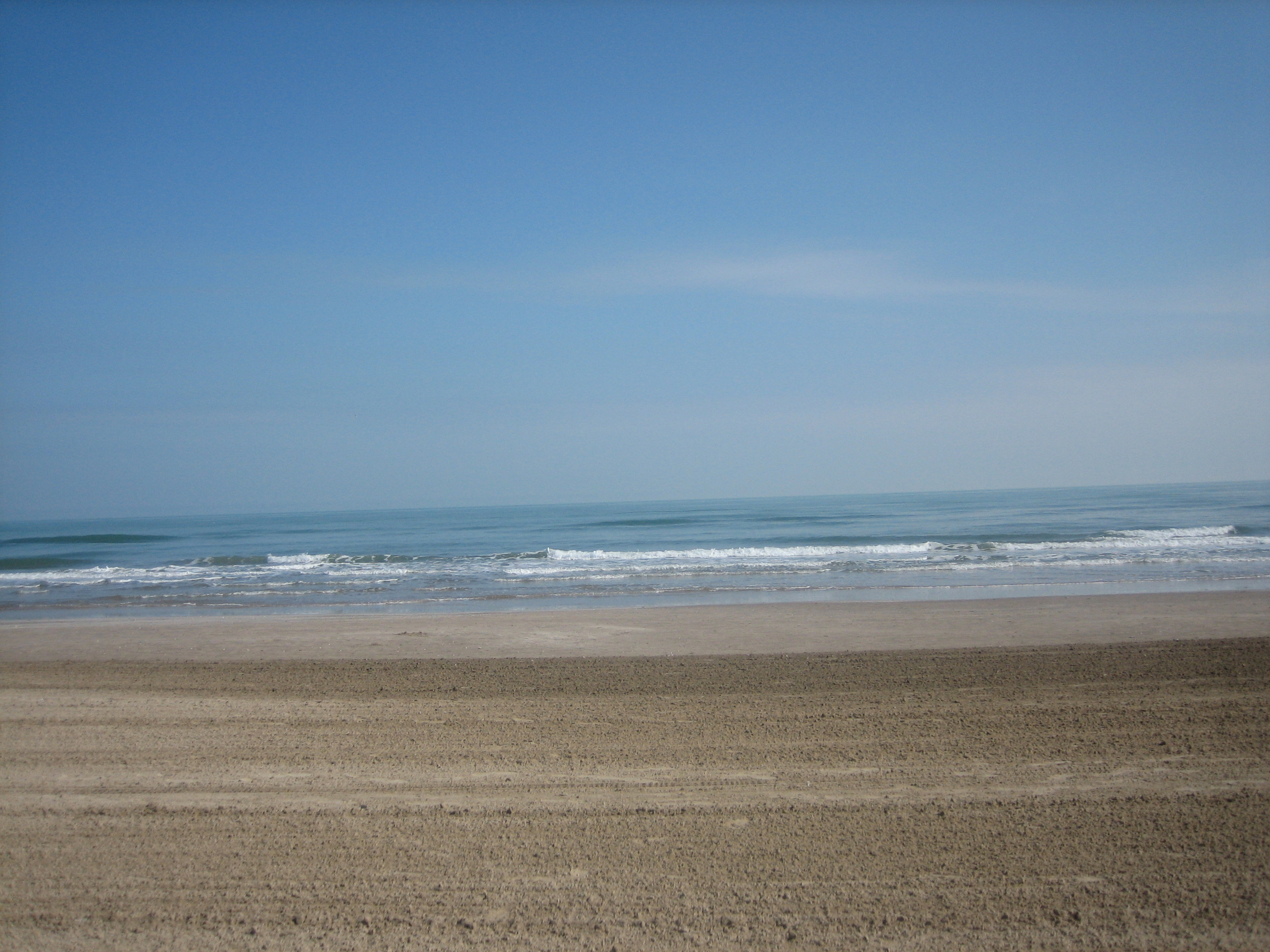 I took picture on June 18, 2006.